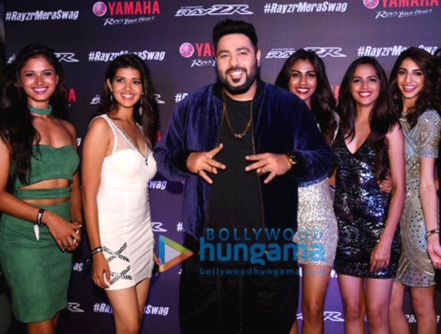 Miss Diva 2017 delegates